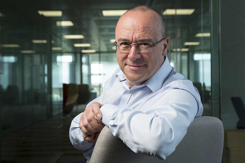 Chris Bishop June 2015